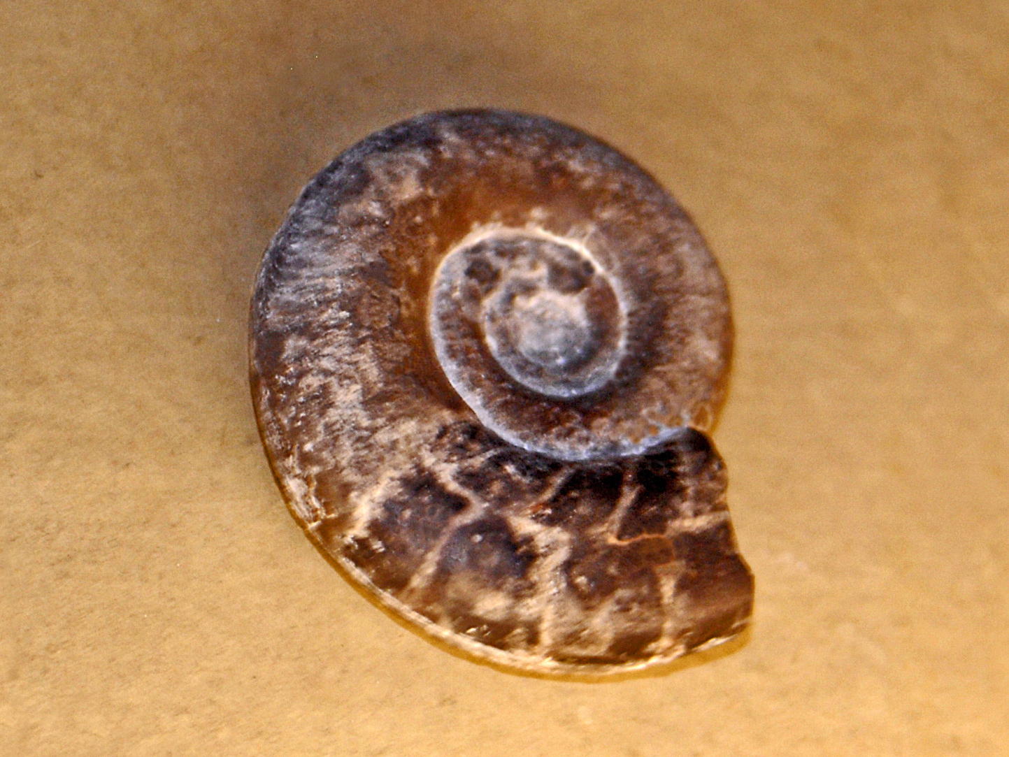 Fossil shell of Clymenia laevigata, on display at Gallery of Paleontology and Comparative Anatomy, Paris.